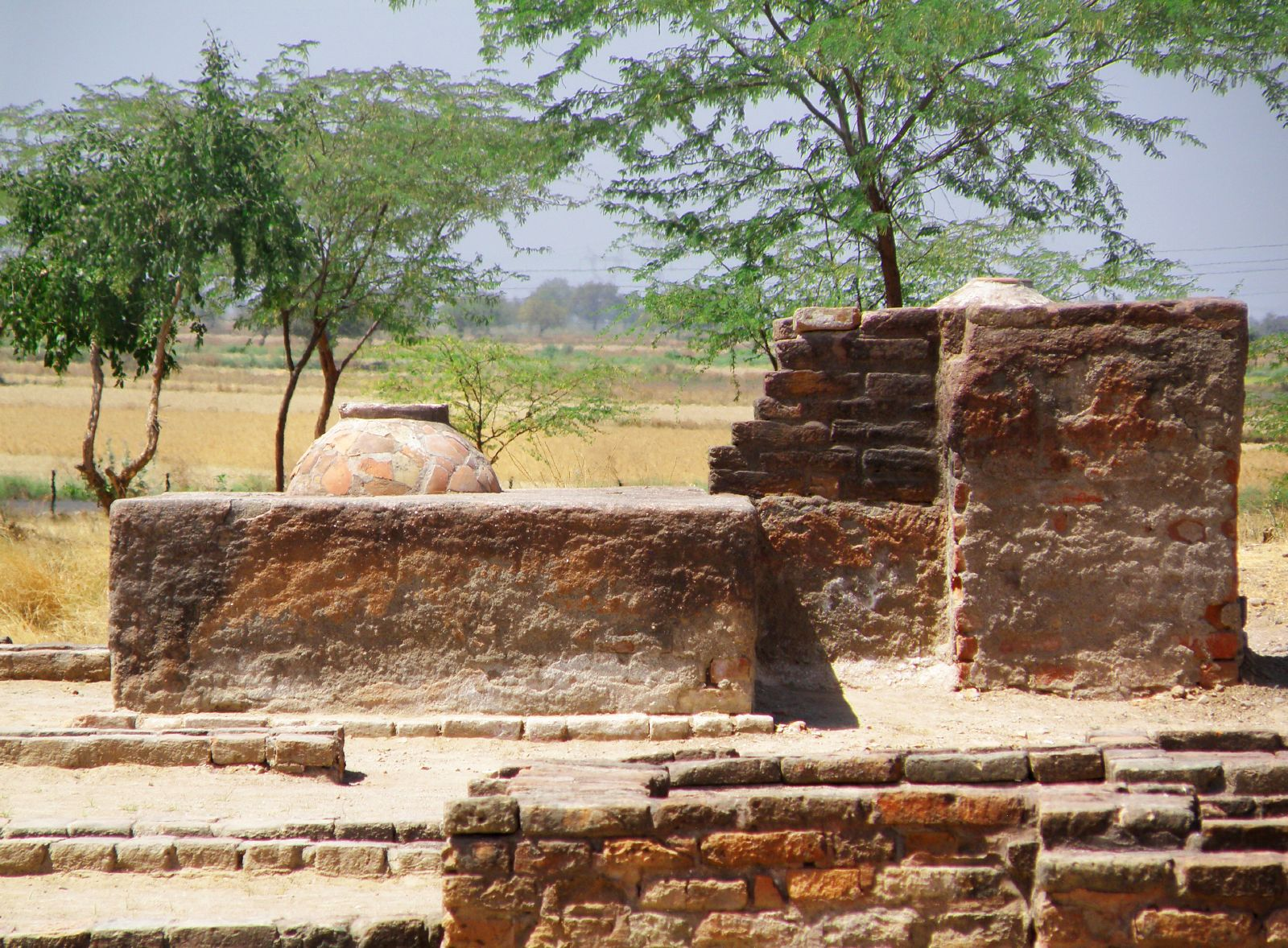 Lothal: Lothal used to be a port in the bornze age. It is a Harappan site. The remains found here date back to 2900BC. Above: This is believed to be a bathroom. The two pots were used to hold water. The drains are visible in the lower left. The drains used to join the bathrooms with the main sewer line.